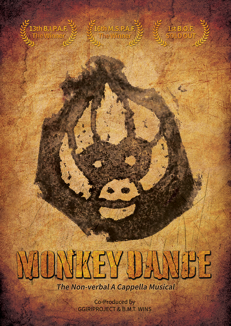 The Poster of Monkey Dance the Non-verbal A Cappella Musical